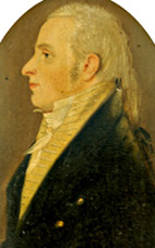 Isaac Darlington, US Representative from Pennsylvania